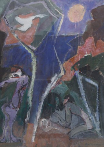 Edmond Boissonnet